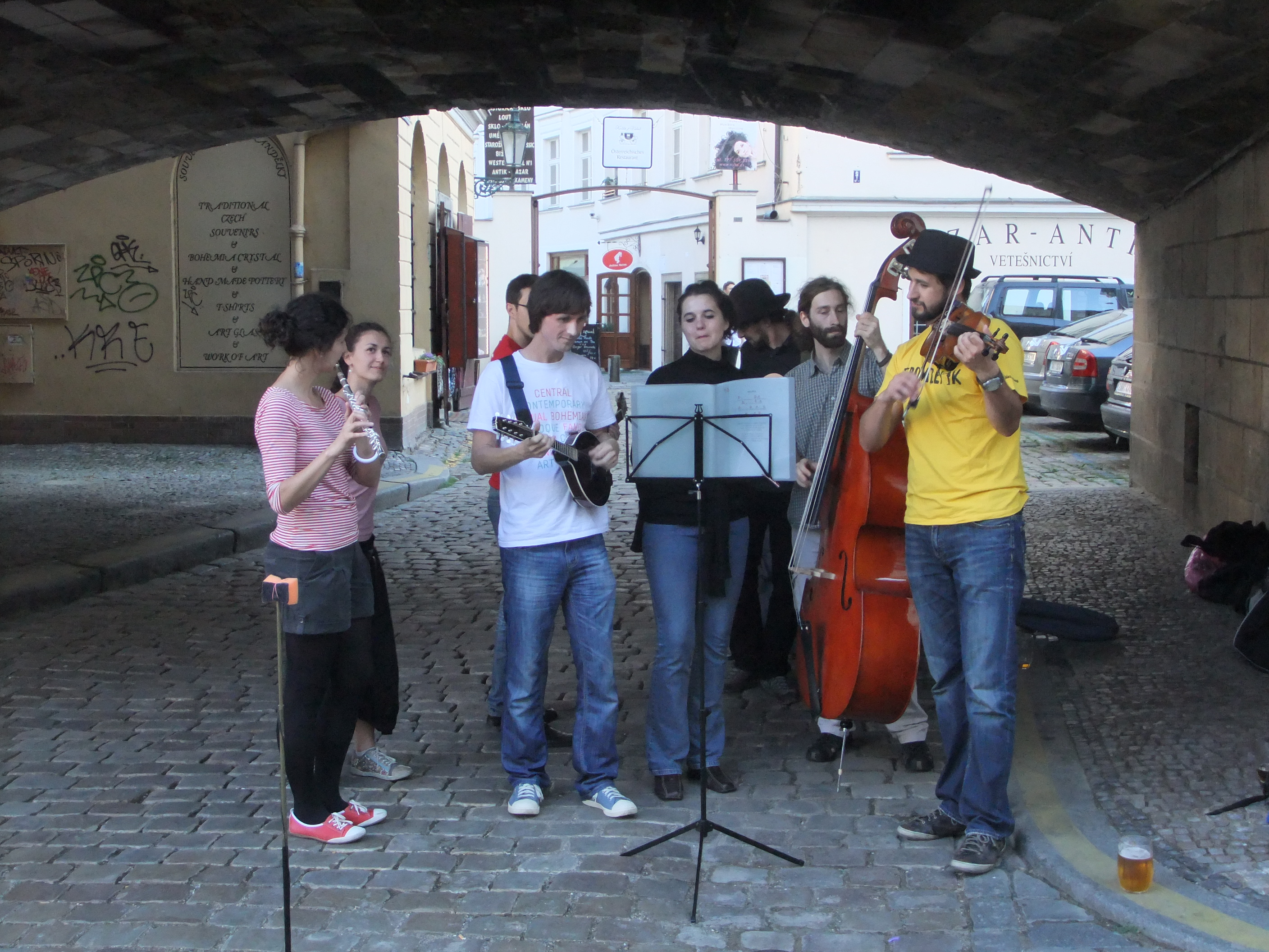 Fête de la Musique 2011 Prague, under the 1-rd vault of Charles bridge (counted from Malá Strana bank) – the music group Jindřich Neznámý (= Henry the Unknown) playing and singing the Czech and Moravian folk songs. This recording raised as a part of the Wikiversity project Nahraj svého buskera = Record your busker. The sound is recorded by Kychot on the File:Fête de la Musique 2011 Prague - Jindřich Neznámý.ogg.